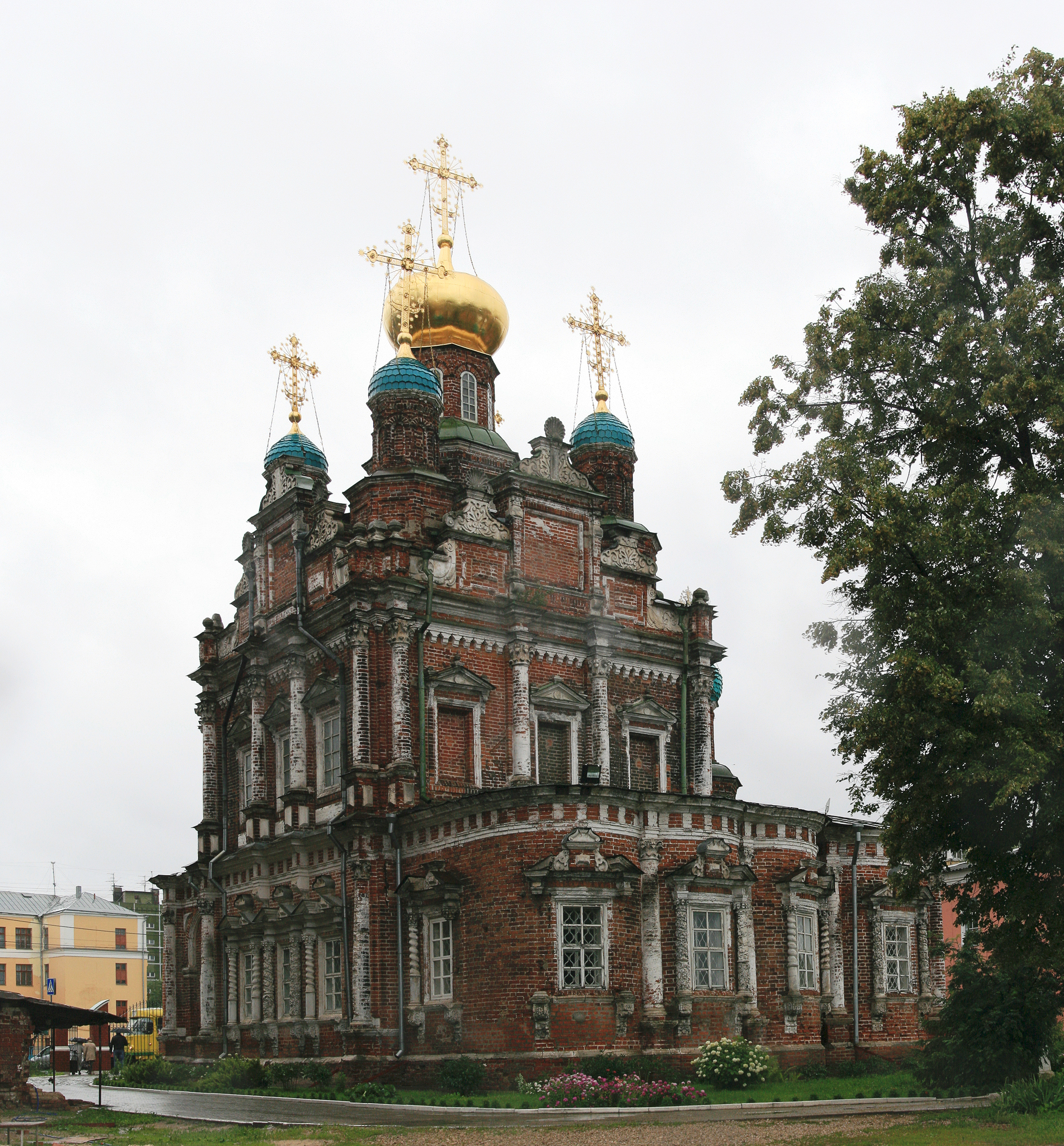 Church of Our Lady of Smolensk, Nizhny Novgorod